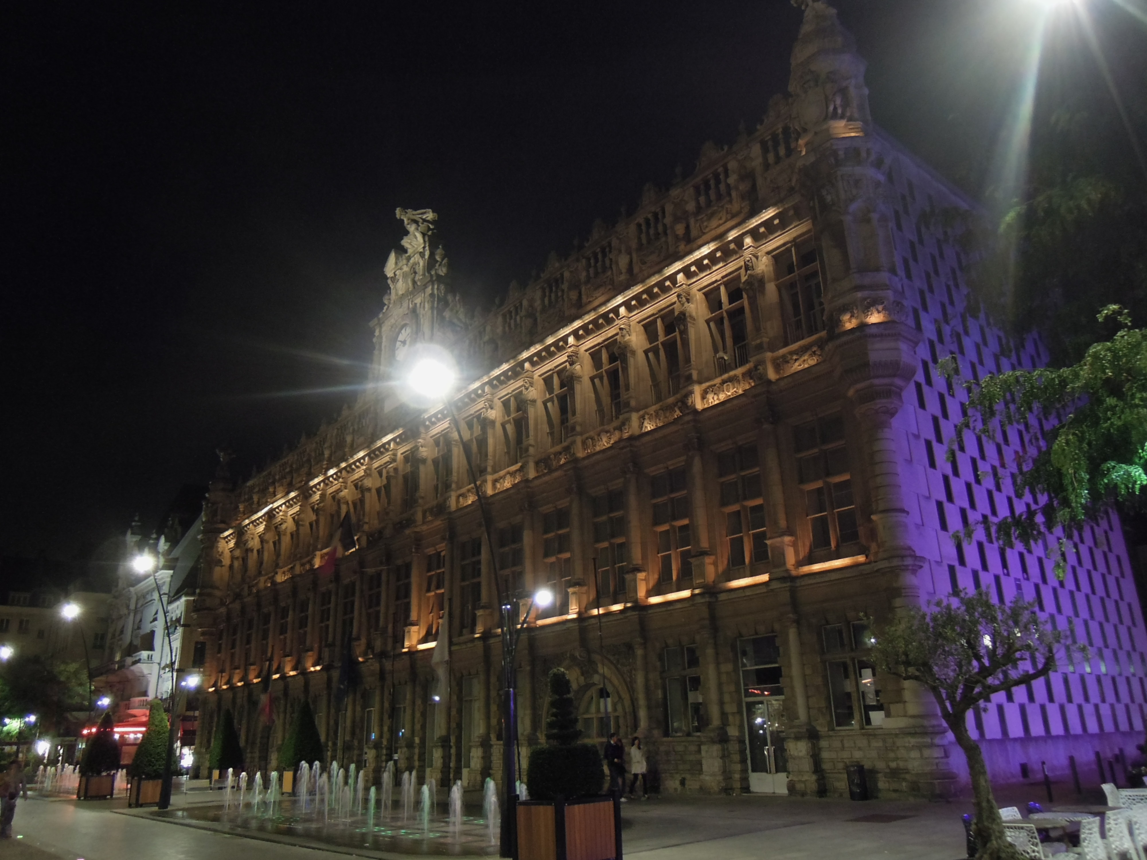 Valenciennes Town Hall